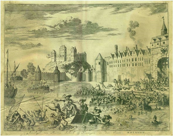 Attack of Maarten Schenck of the city Nijmegen, 1589